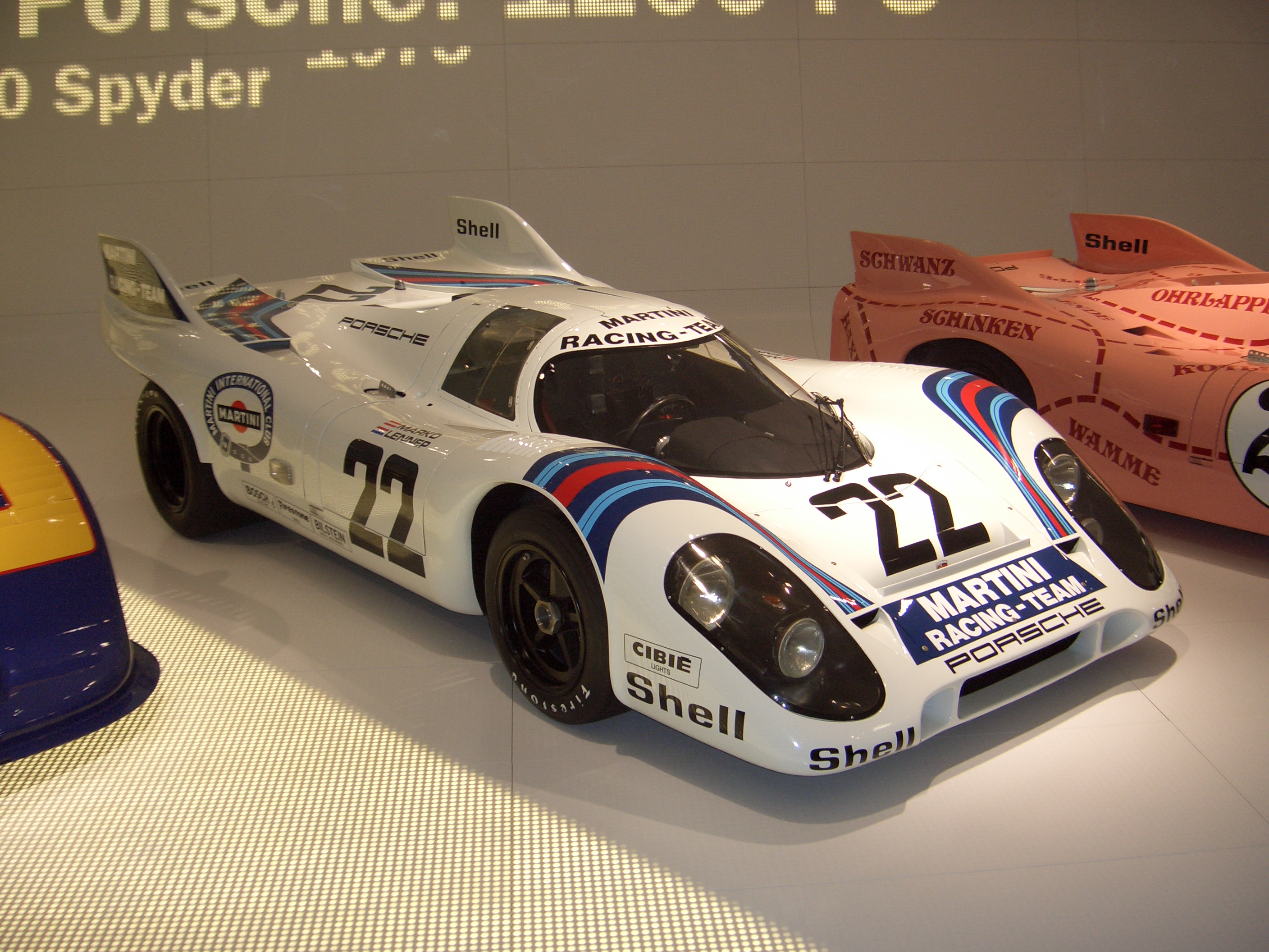 see filename for despcription - seen at Porsche Museum Native namePorsche-MuseumLocationStuttgartCoordinates48° 50′ 07″ N, 9° 09′ 06″ E Established1976 (old museum) 2009 (new museum)Web page control : Q328623 VIAF: 138511768 GND: 2087859-X SUDOC: 155641123 NKC: ko2015876799 institution QS:P195,Q328623